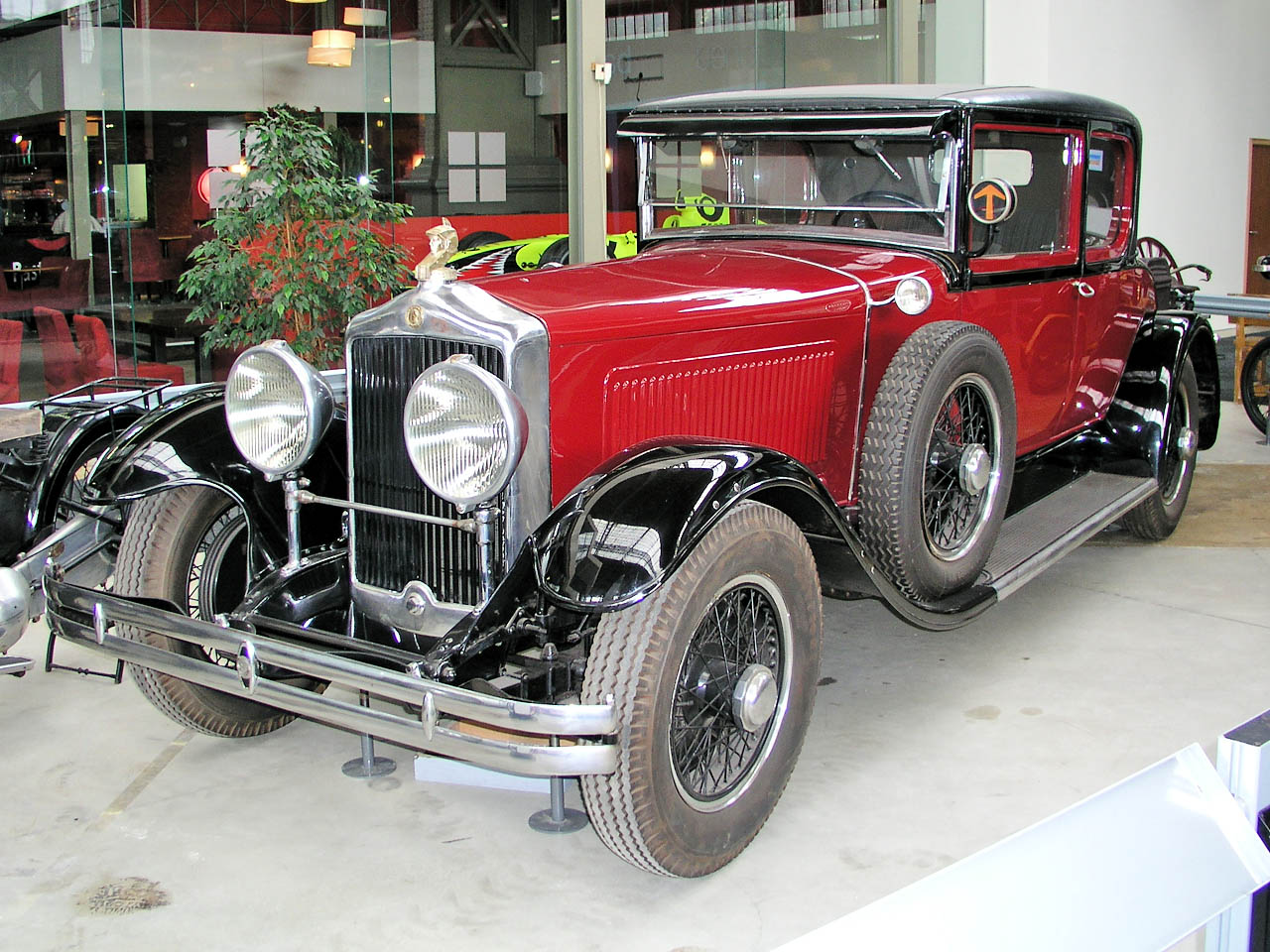 40 HP model powered by a 6616 cc 8-cylinder engine with sleeve-valves, made in Belgium by Minerva Motors SA; front side view